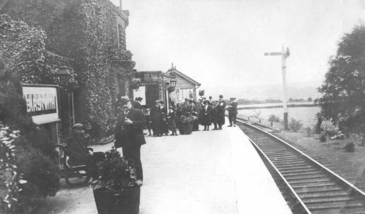 View of passengers on the platform at Birstwith railway station, Yorkshire, UK, taken around 1911